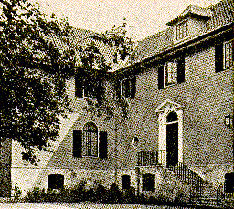 Villa Svastika